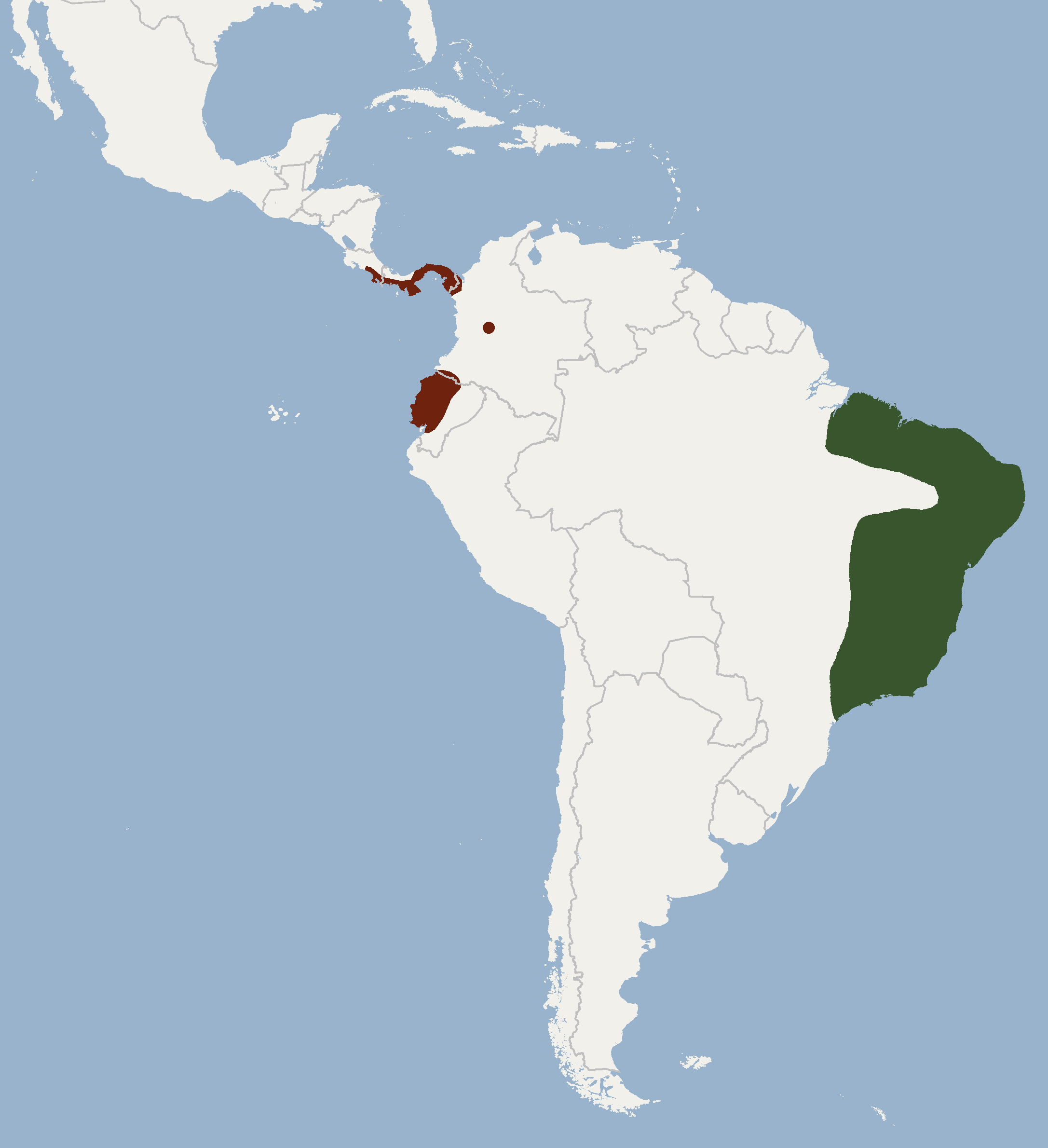 Geographical distribution of Lonchophylla mordax according to Gardner, 2008